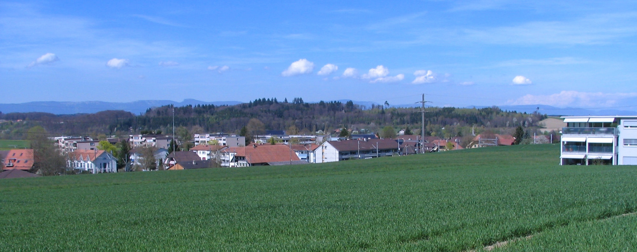 Moosseedorf seen from south